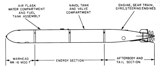 Mark 16 torpedo diagram, published in "A Brief History of U.S. Navy Torpedo Development", E.W. Jolie, 15 September 1978